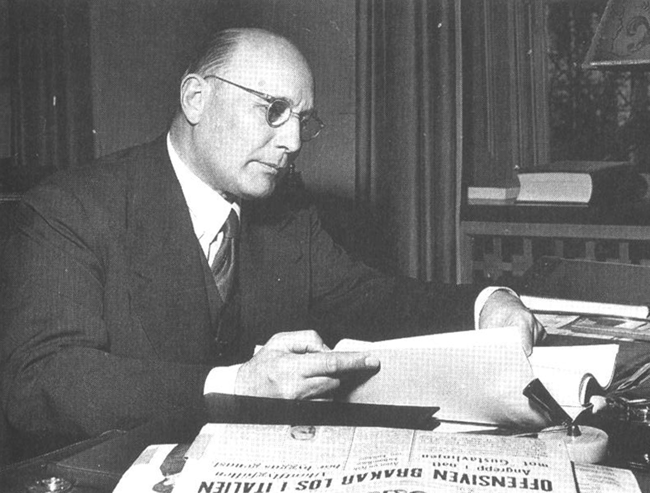 Torsten Kreuger in his office in Stockholm 1943.